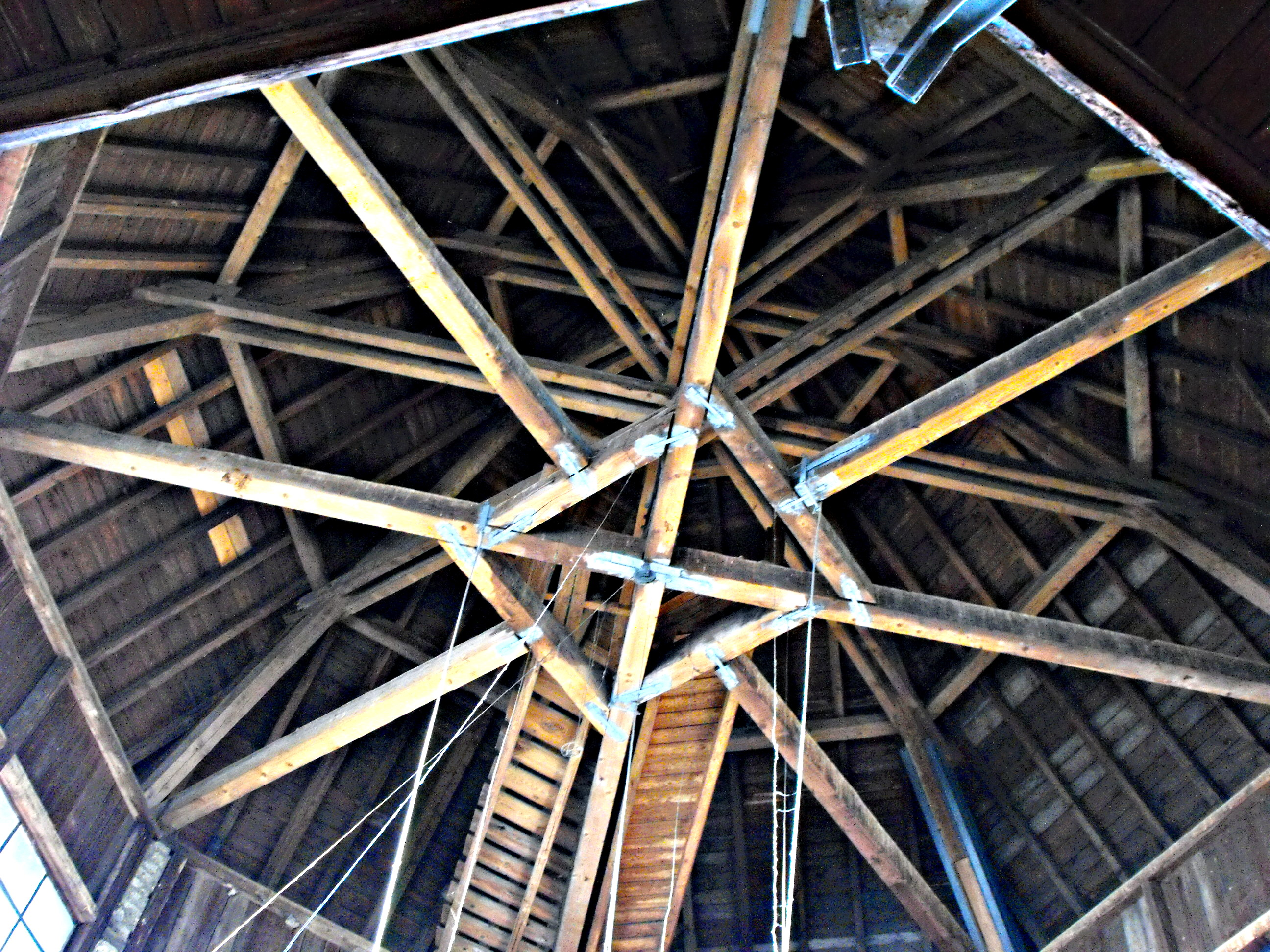 Kirchturm - Dachkonstruktion - von Herz Jesu Aachen